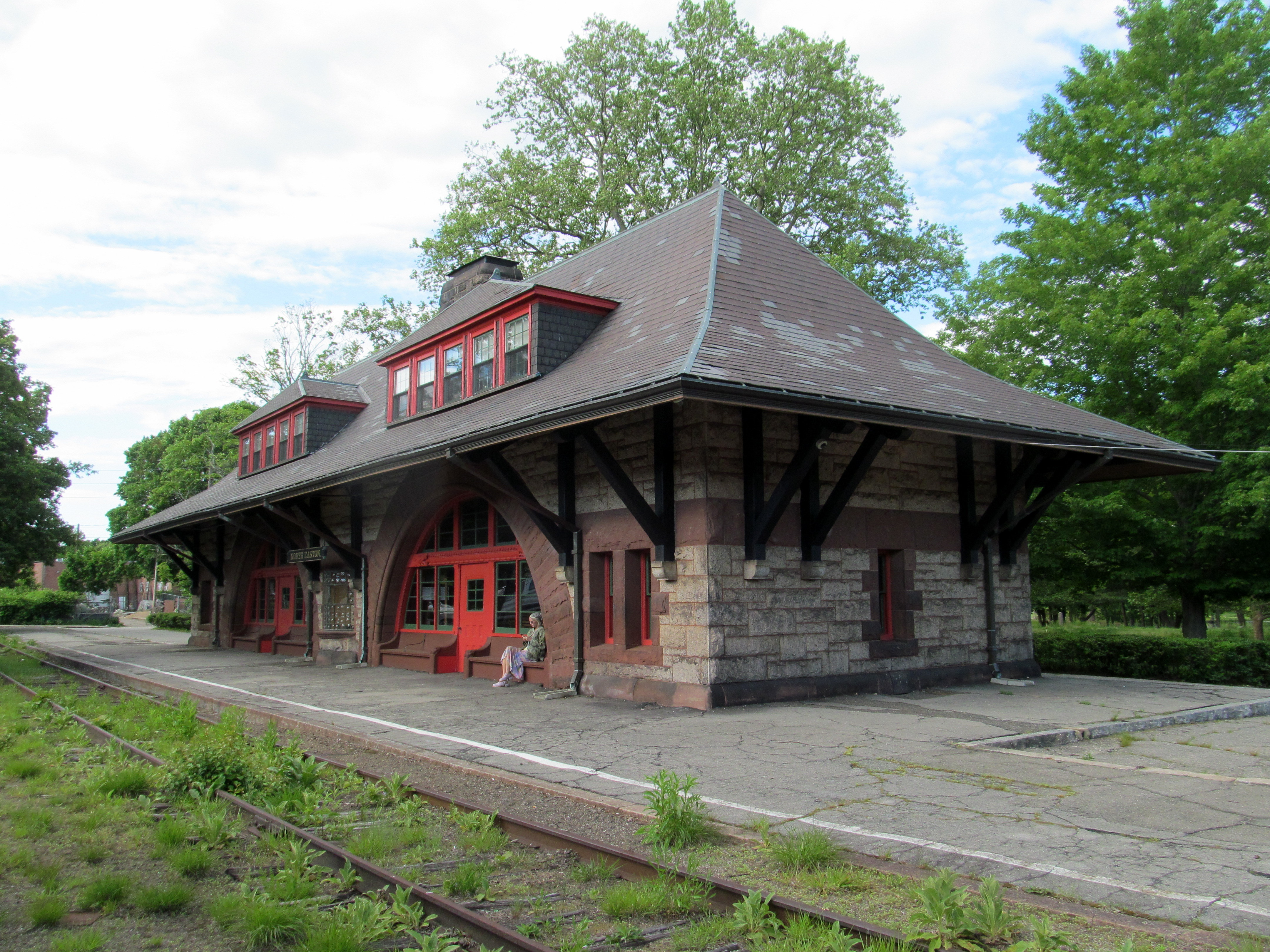 North Easton station in June 2017